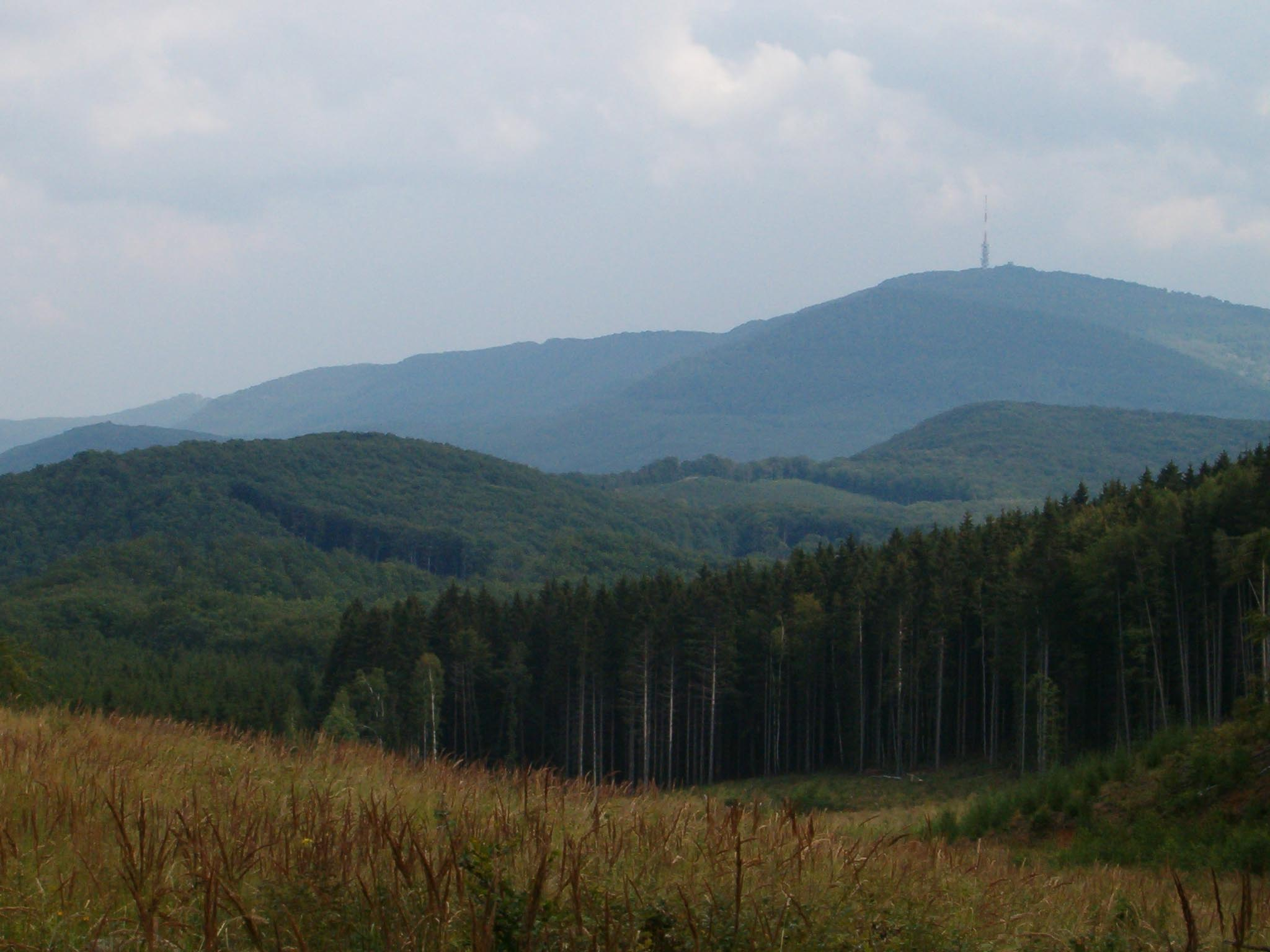 Kékes seen from the roadbend beneath Nagy-Lipót (Mátra Mts., Hungary)